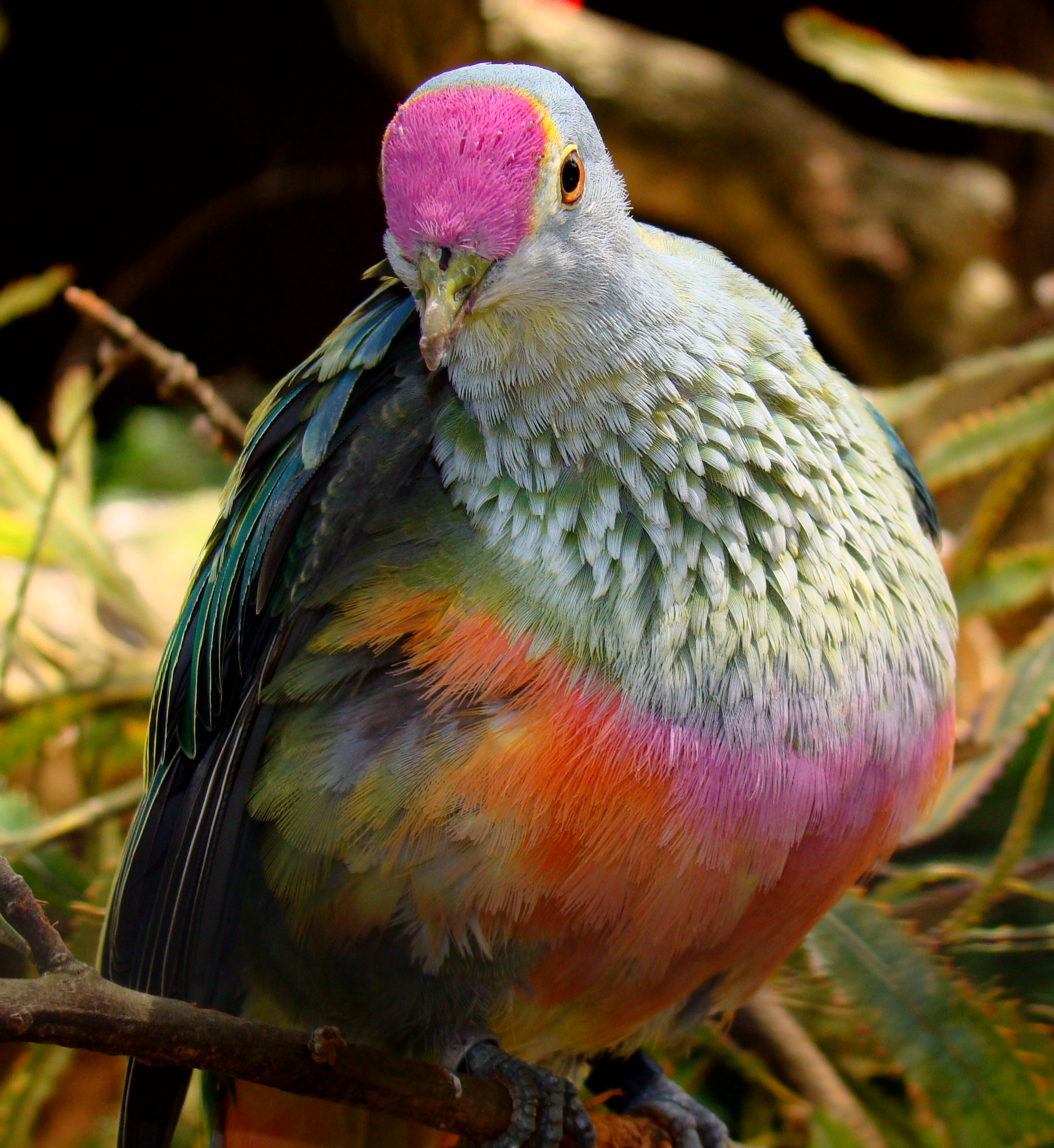 A Rose-crowned Fruit Dove Ptilinopus regina, photographed in captivity in Taronga Zoo in Sydney, Australia.